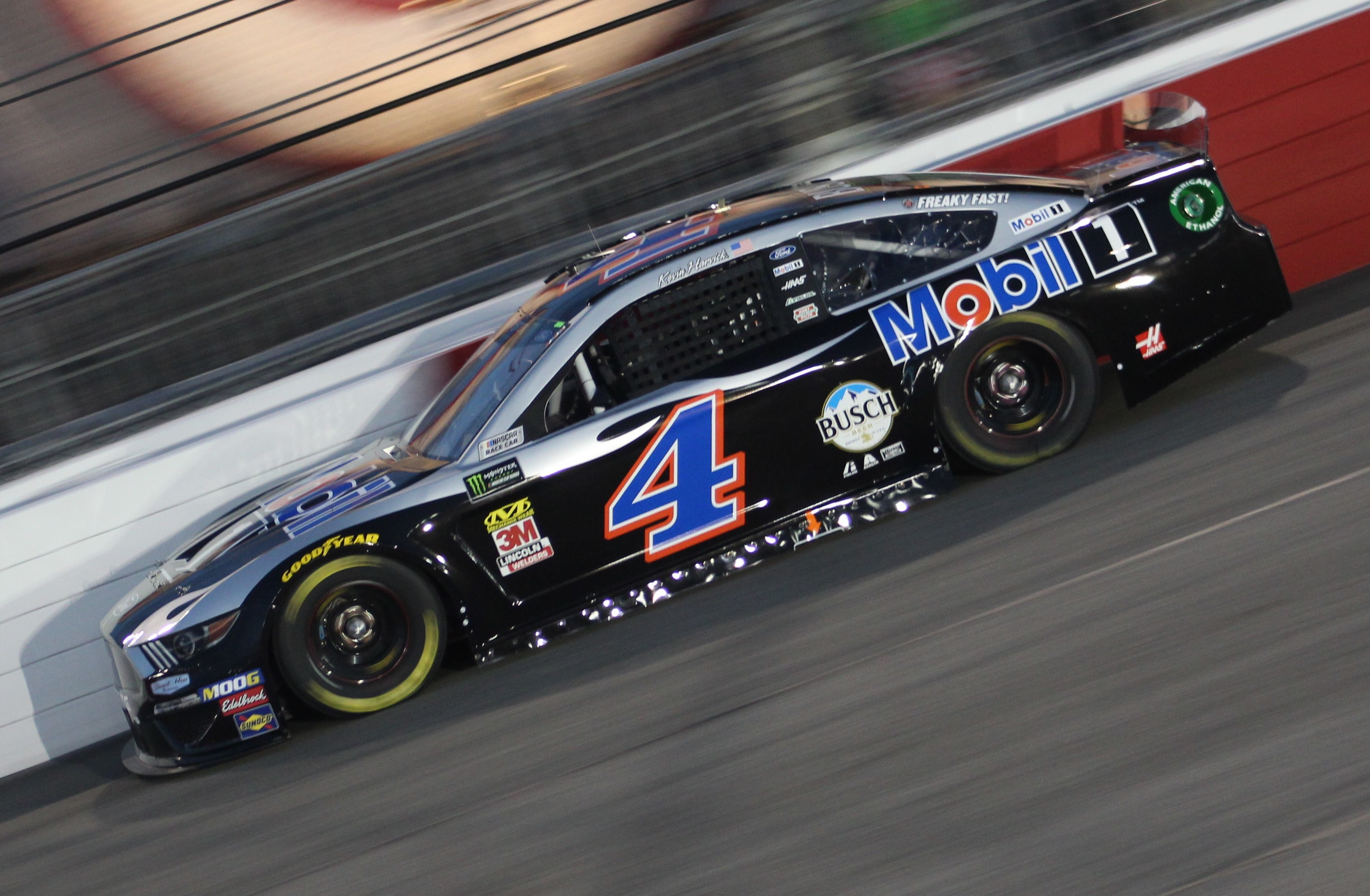 2019 Toyota Owners 400